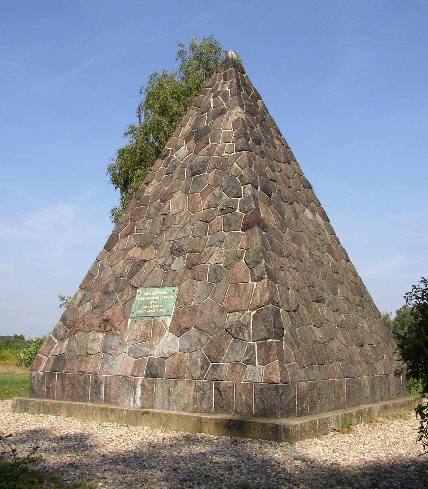 Memorial of the Battle of Großbeeren in Brandenburg, Germany